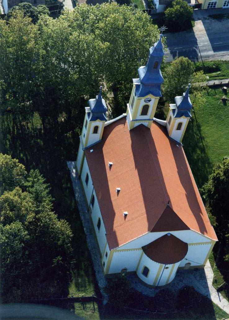 Roman Catholic church. - Szany, Hungary, aerial photography